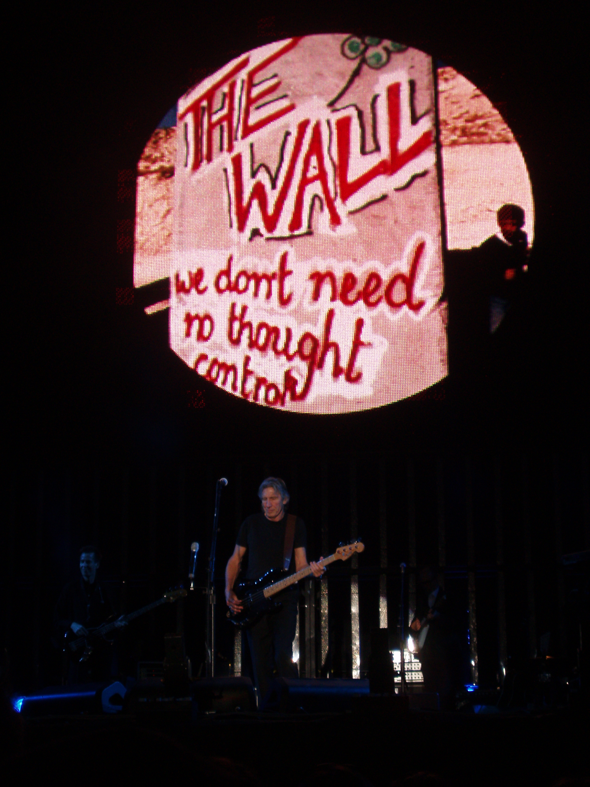 Roger Waters playing "Brick In The Wall pt. 2" on the "Dark Side of the Moon live" tour in Viking Stadion, Stavanger, Norway.